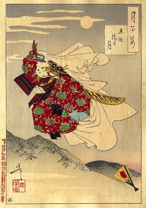 Gojo Bridge moon (Gojobashi no tsuki)